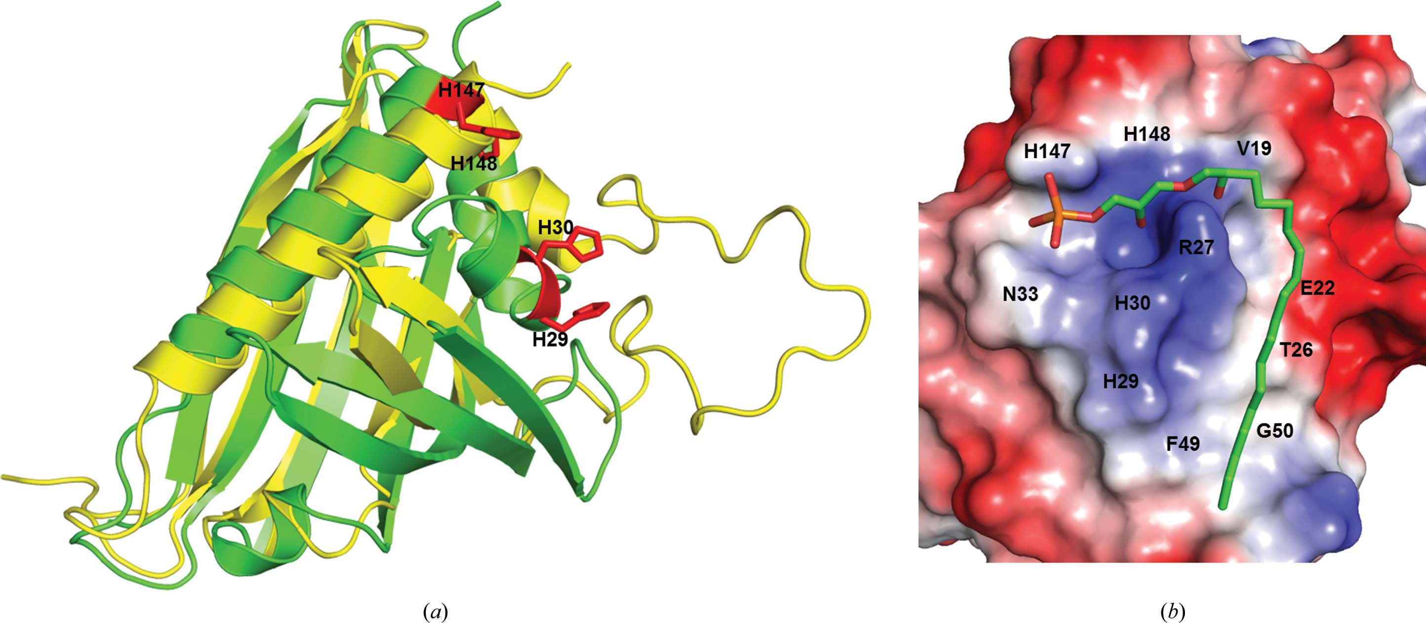 Recognition of lysophosphatidic acid C18:2 by ginseng major latex-like protein 151